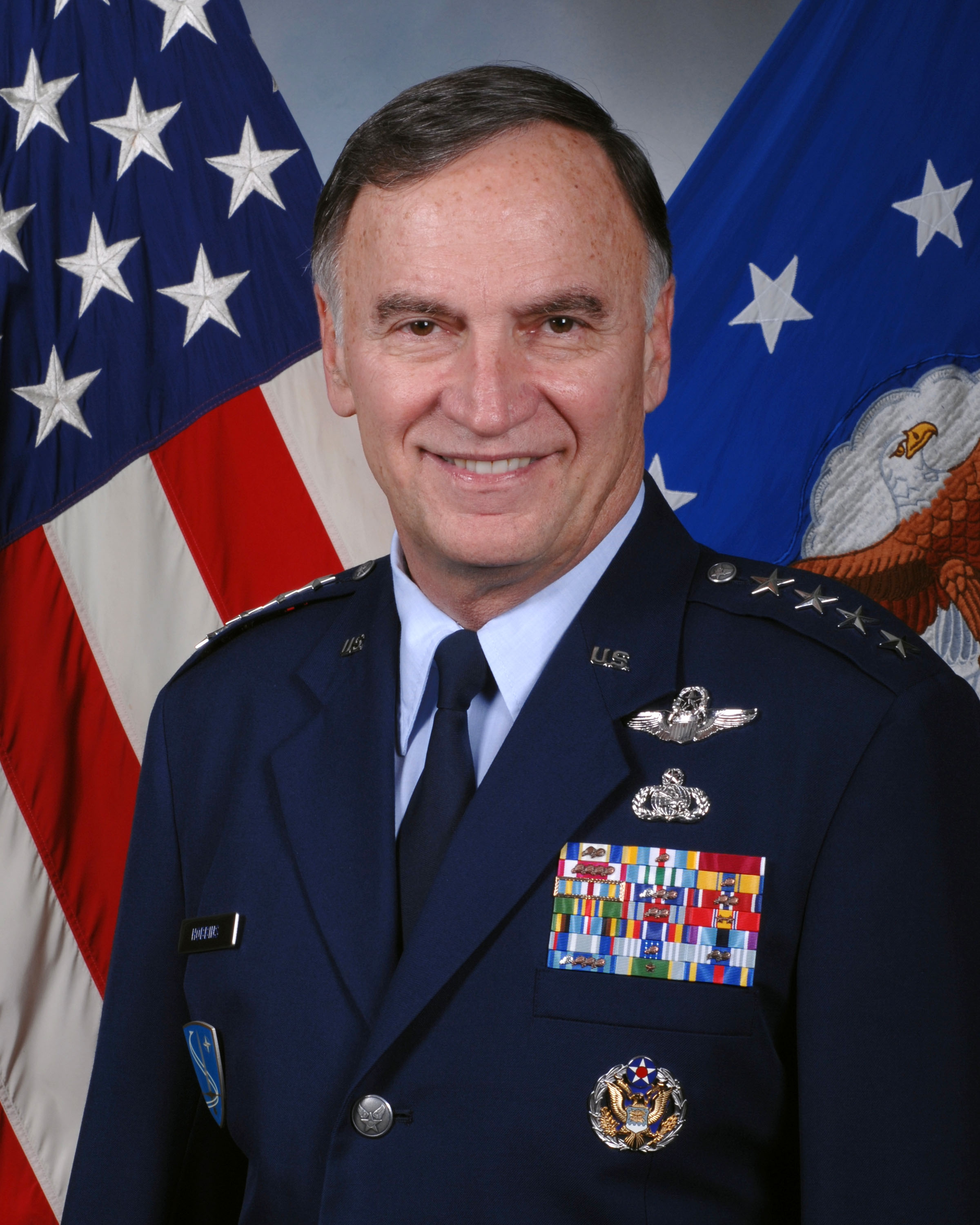 United States Air Force General William T. Hobbins, official portrait